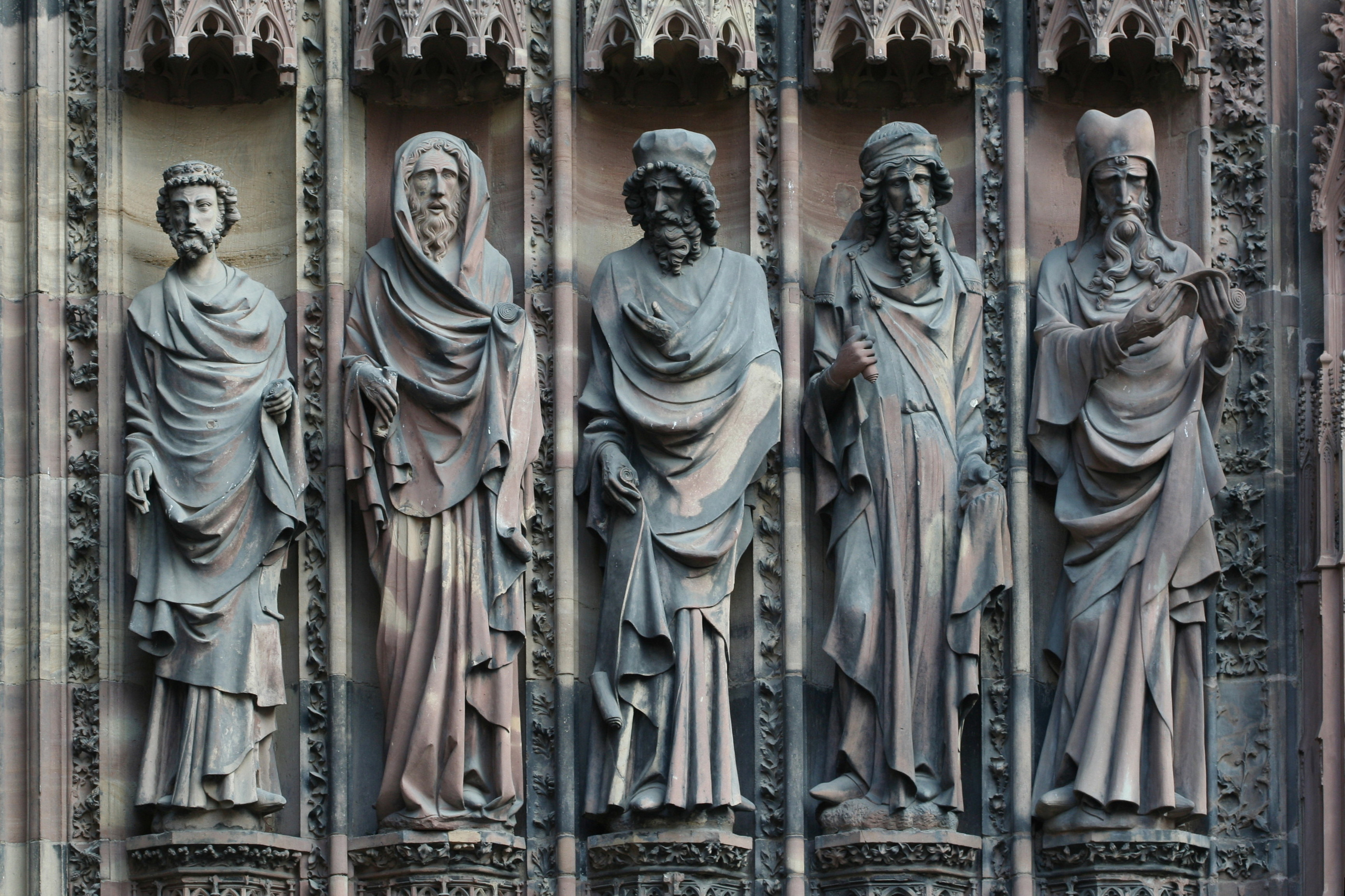 Statues of the right side of the central door of the western portal of Strasbourg cathedral.